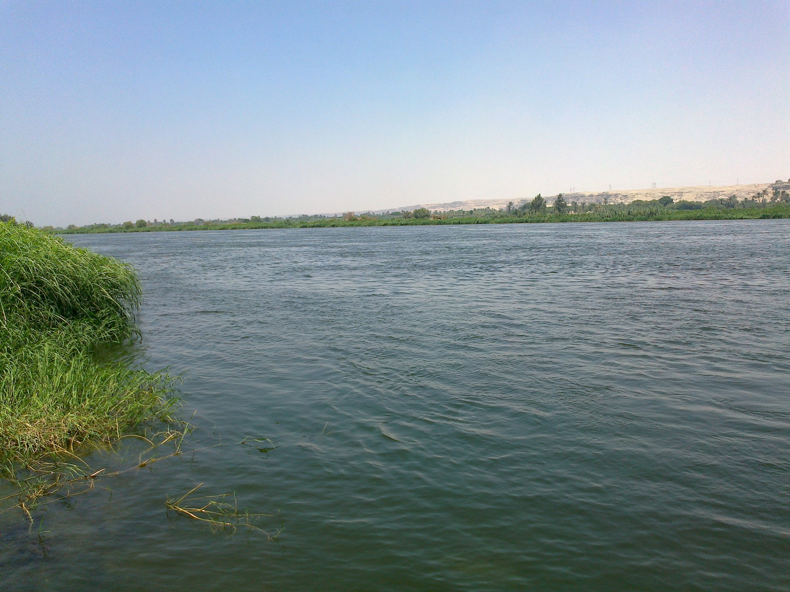 Mile In Minia City